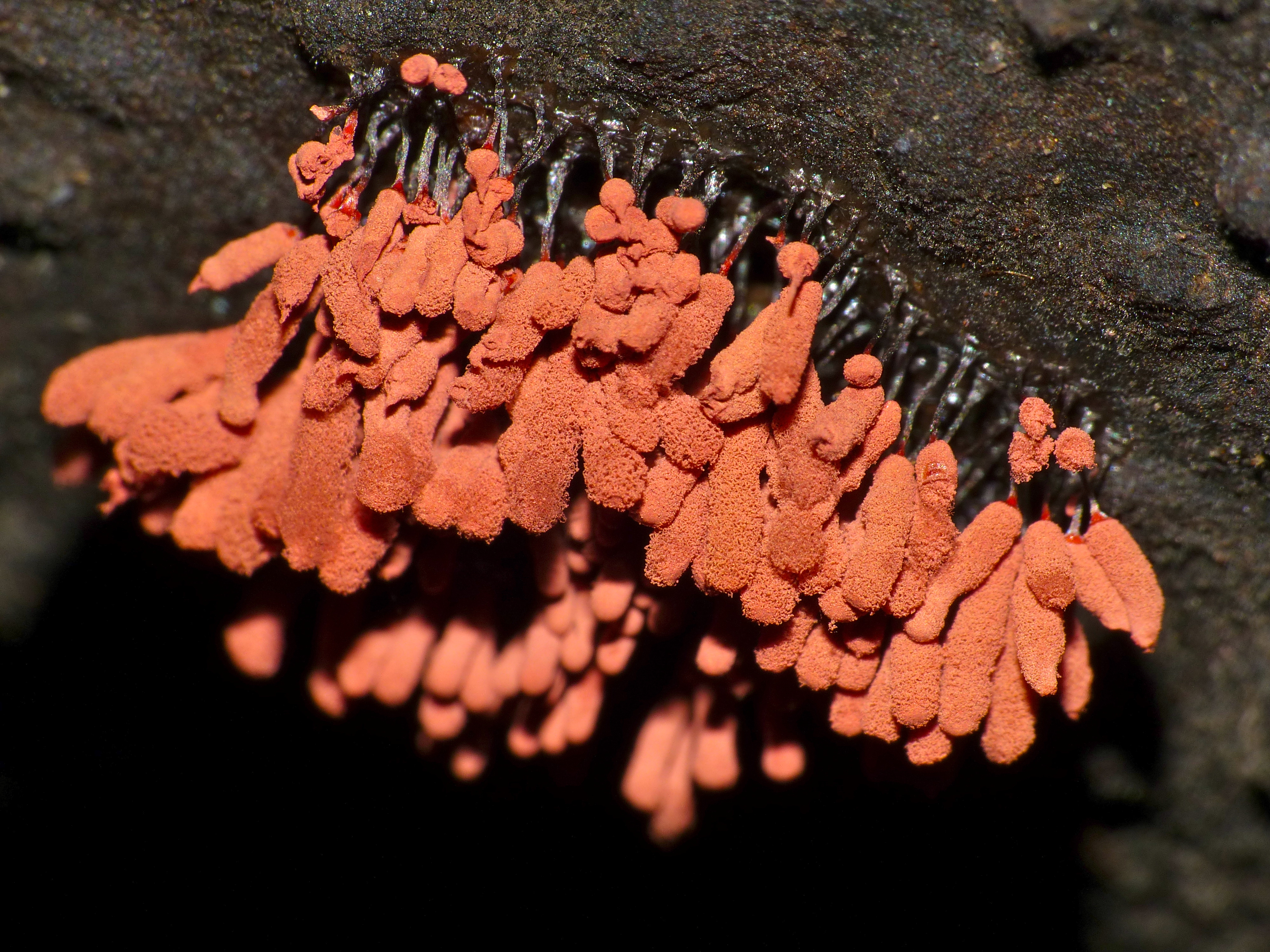 Sporangia of a myxomycete Arcyria. Night Walk Trail, Mulu NP, Sarawak, MALAYSIA